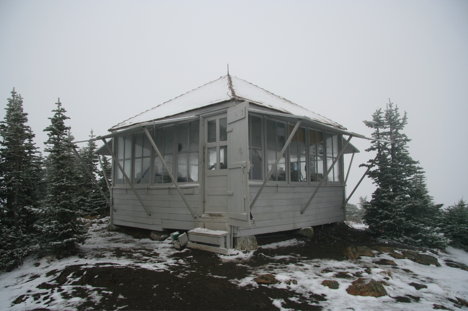 Winchester lookout from the southwest in early October - the very end of the season before snow severely limits access. Photo taken by Ken Haufle.